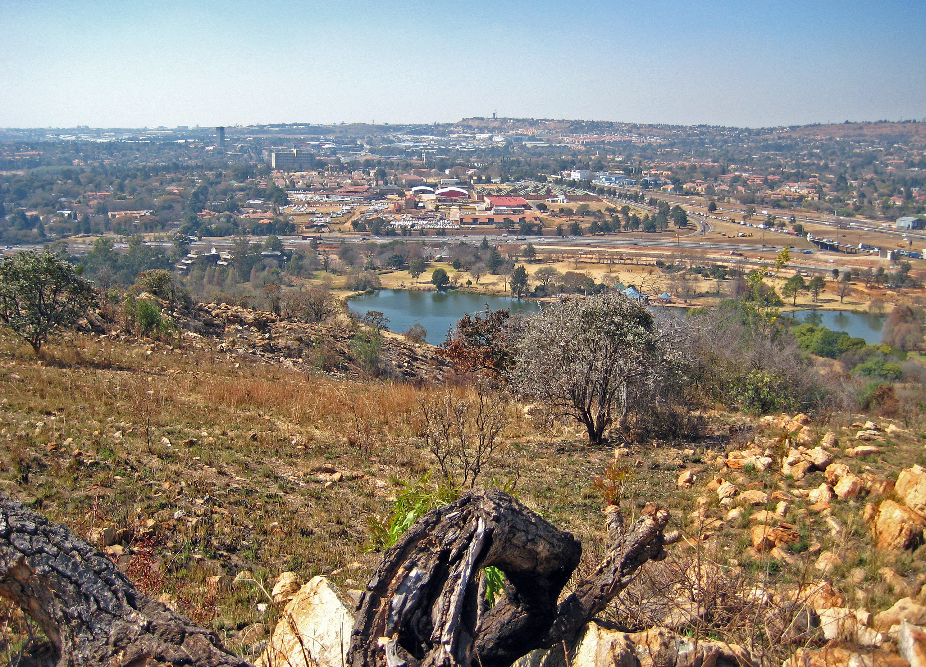 Bedfordview, Germiston, South Africa